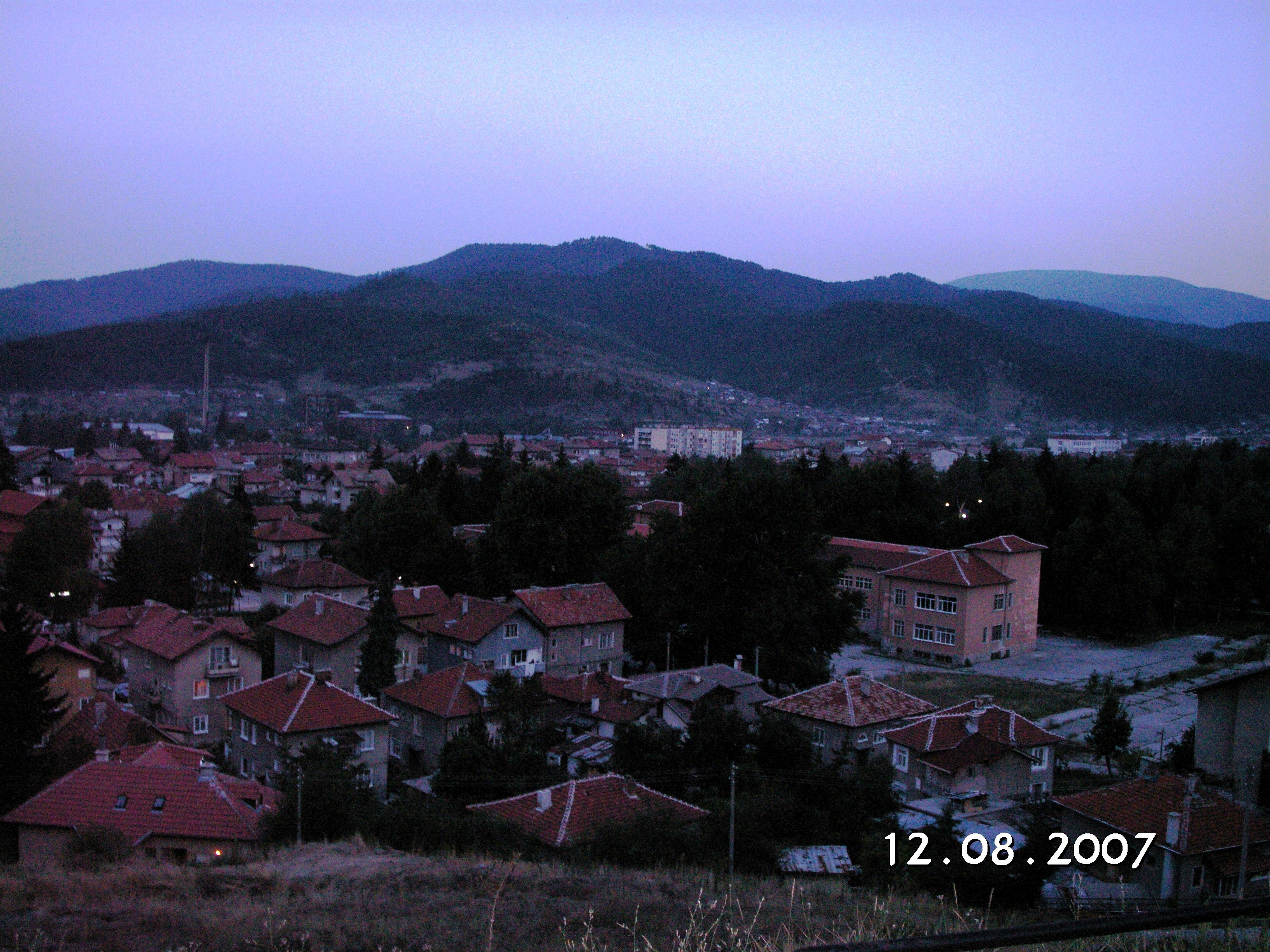 Velingrad at dusk from a top of a nearby hill